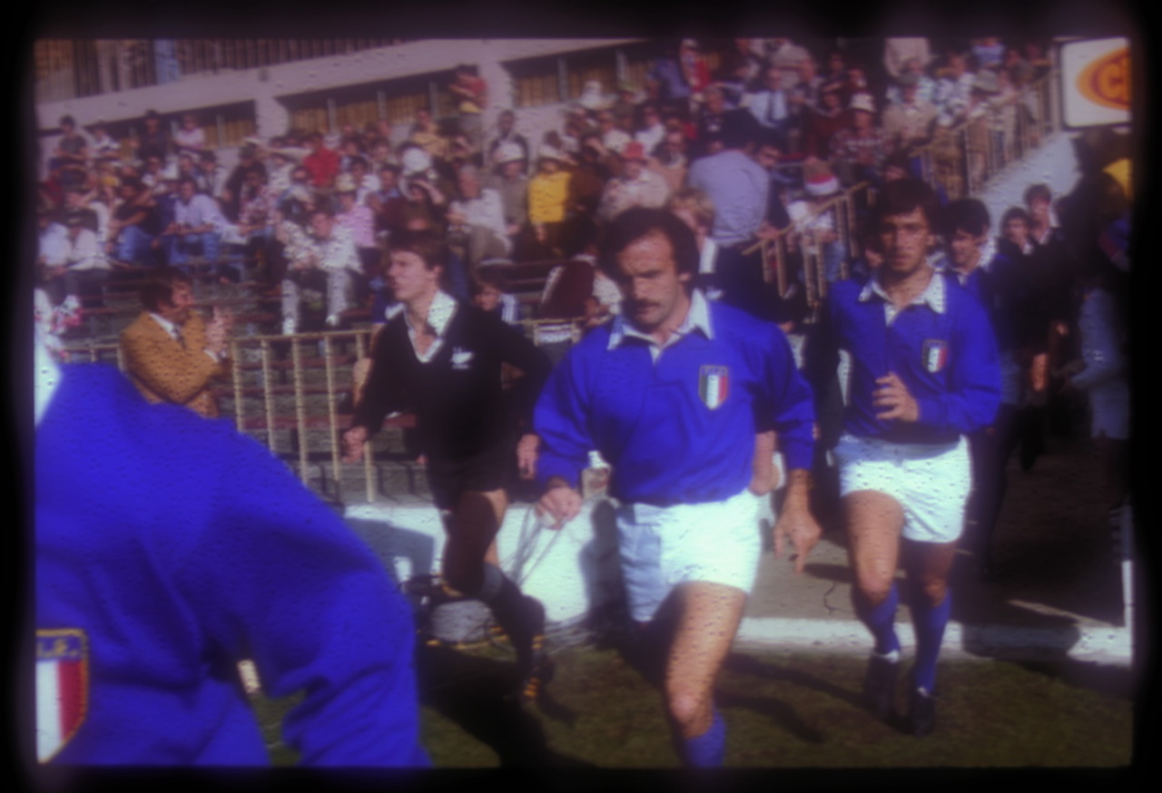 Non-test match between Italy National rugby union team and the All Blacks at Auckland